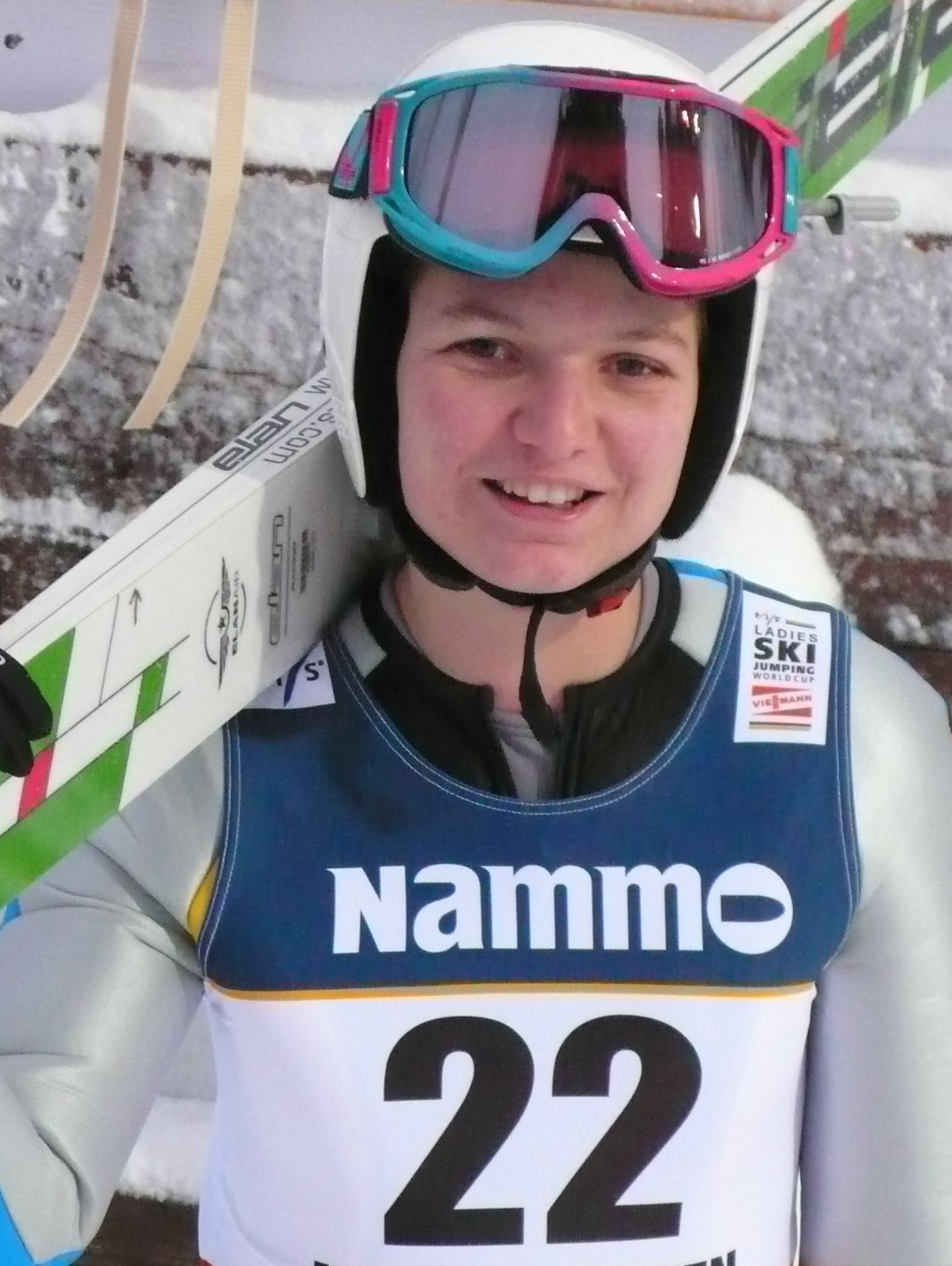 Julia Clair